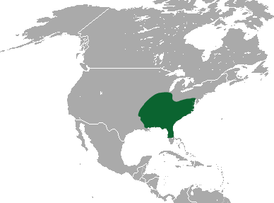 Southeastern Shrew (Sorex longirostris) range